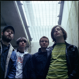 Nine Black Alps promo photo 2009